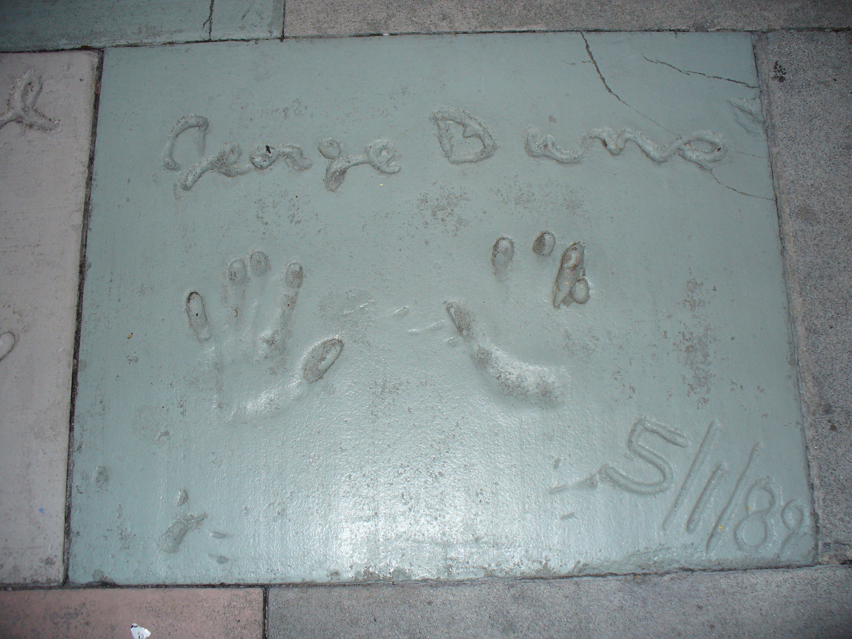 I am the originator of this photo. I hold the copyright. I release it to the public domain. This photo depicts the handprints of George Burns in front of The Great Movie Ride at Walt Disney World's Disney's Hollywood Studios theme park.